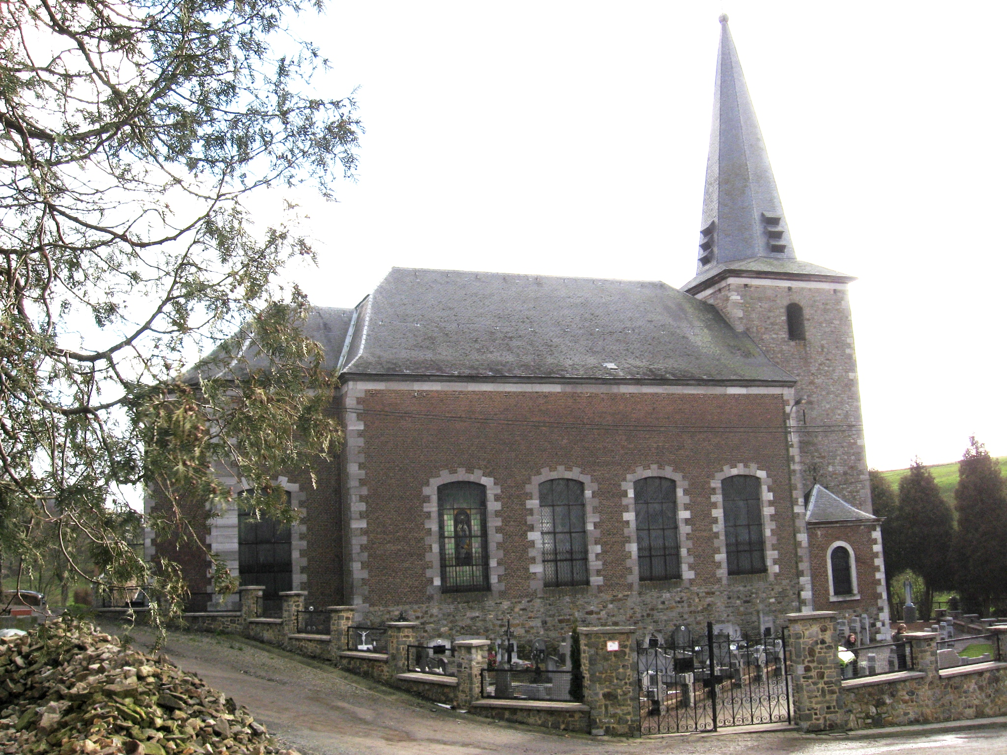 Church of Saint Lucy in Mortroux, Dalhem, Liège, Belgium